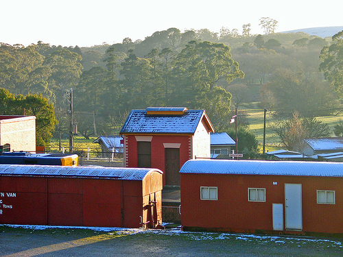 Daylesford Railway Station